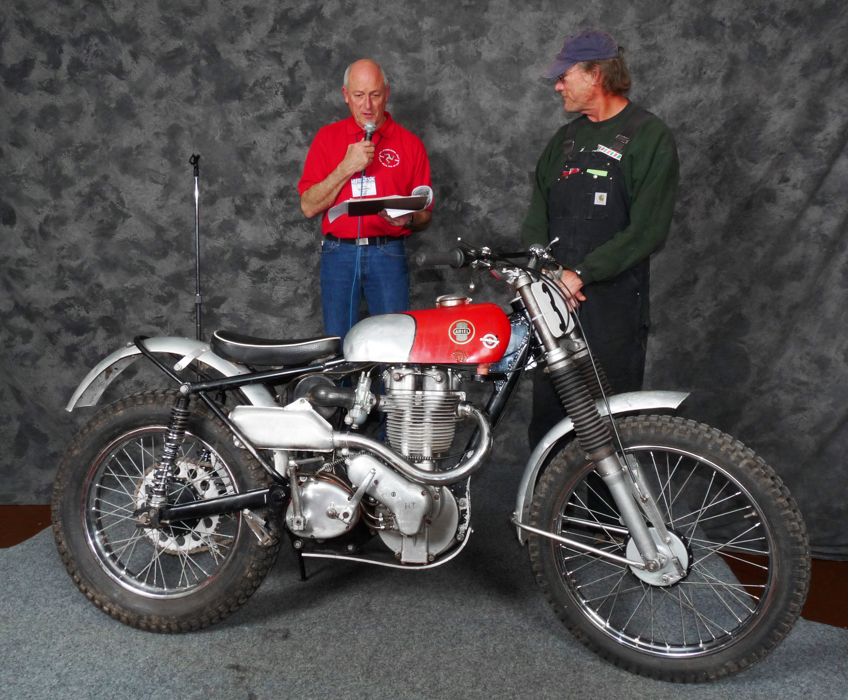 An Ariel 350 HT from 1954 (Observed Trials)